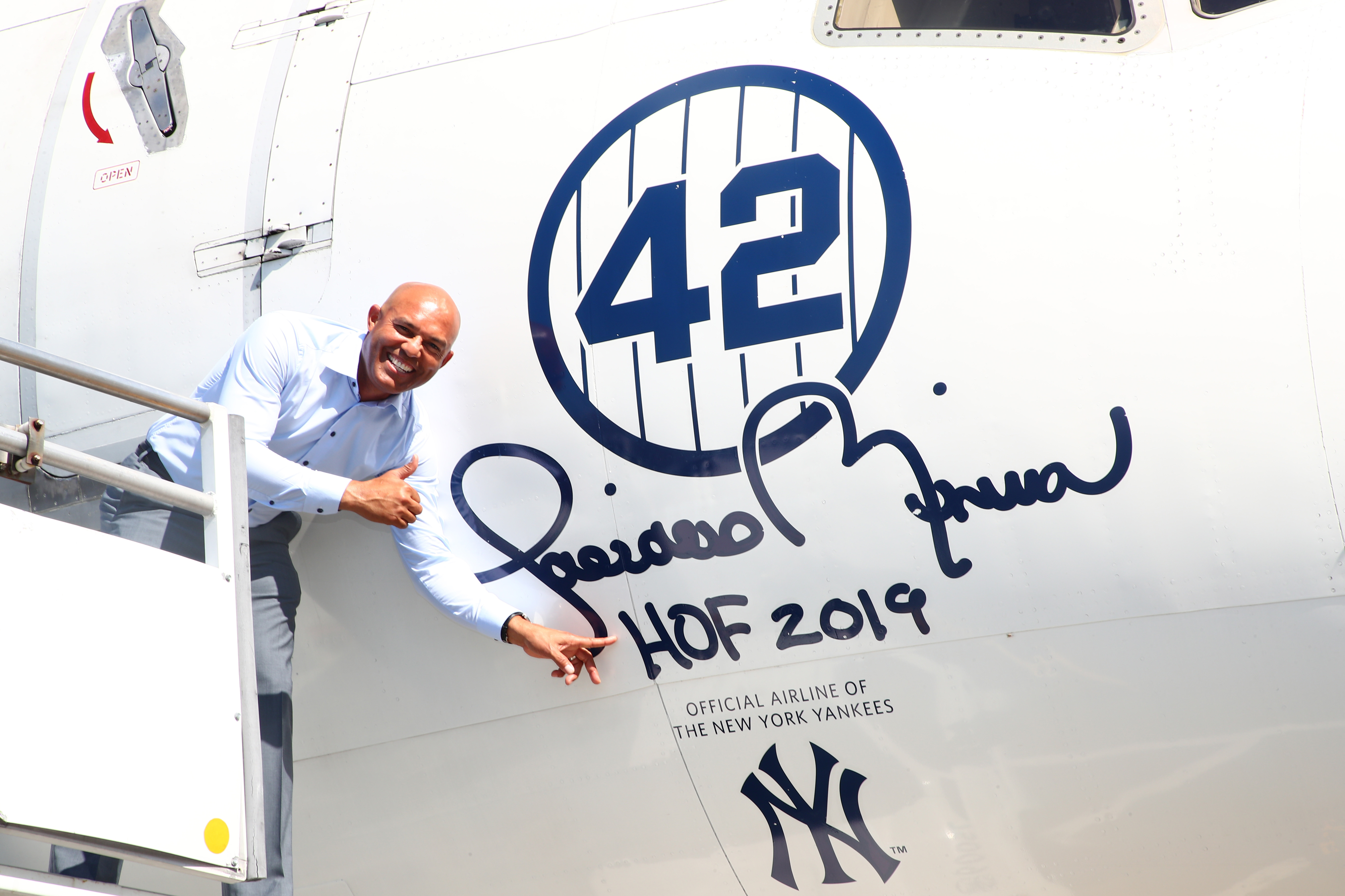 ​Official Airline of the Yankees honors Rivera ahead of his Baseball Hall of Fame induction, dedicating Gate B42 at JFK Terminal 4.